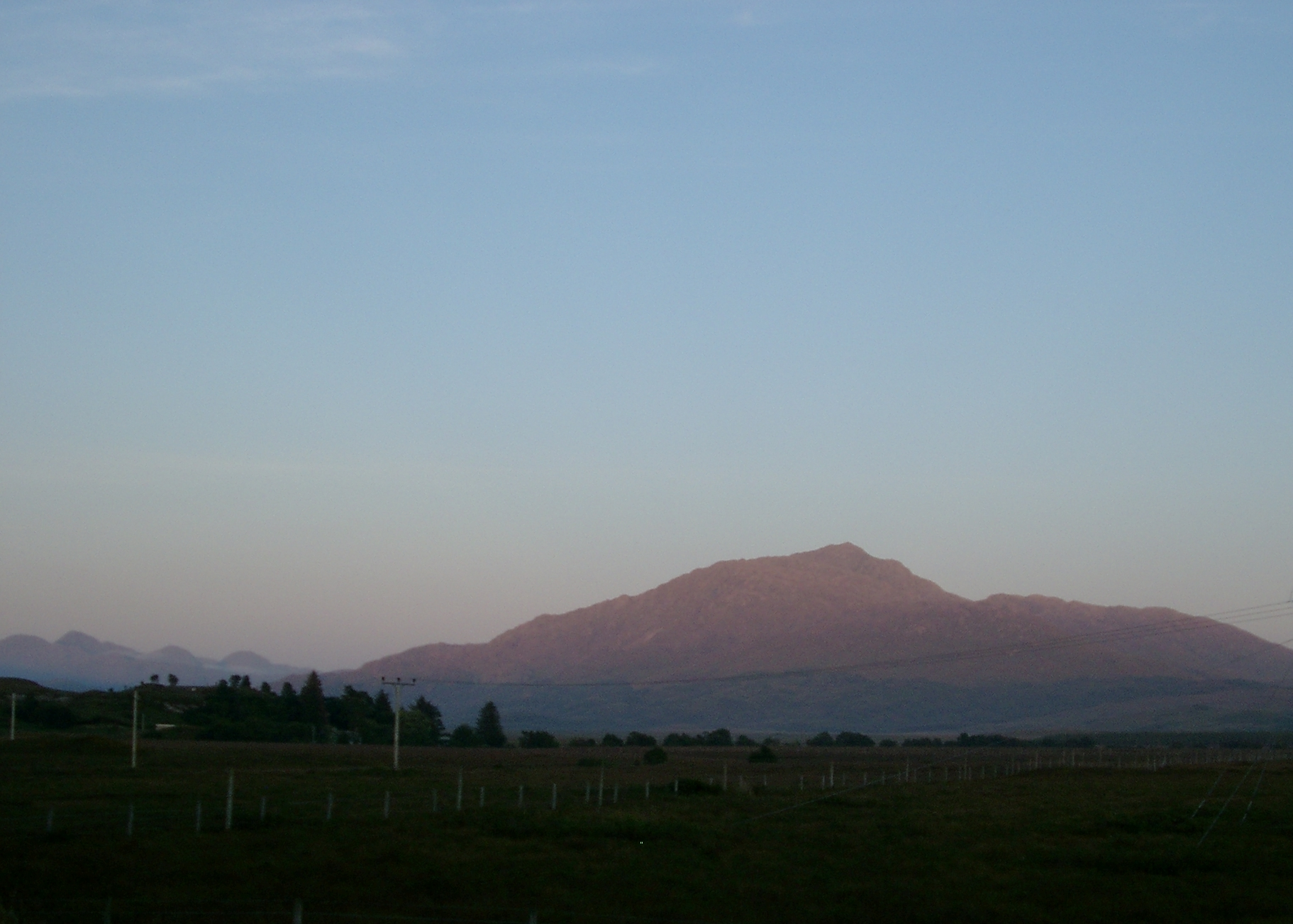 Beinn Resipol, Sunart, Scotland, seen from the north west at sunset, August 2007